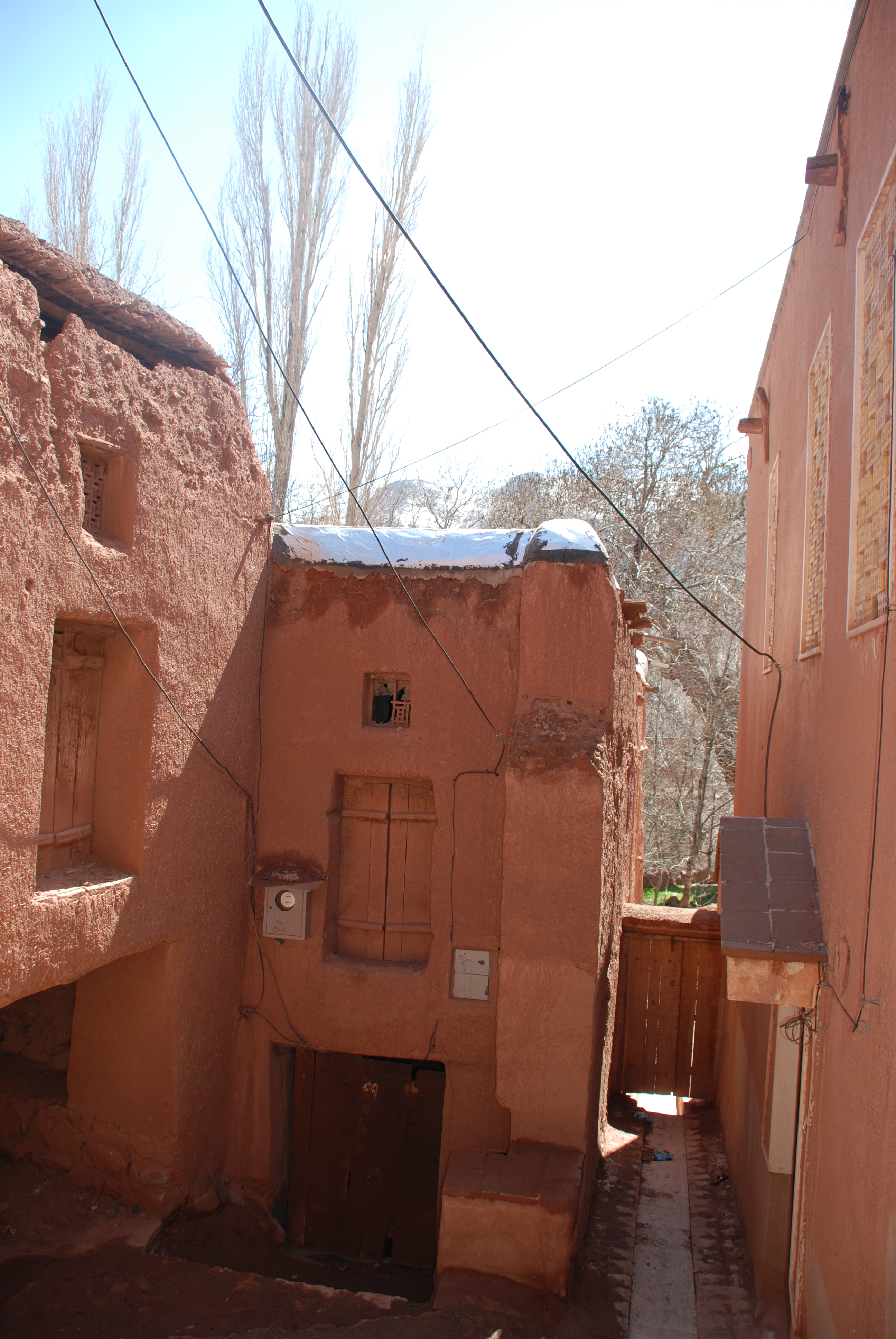 A Alley in Abyaneh